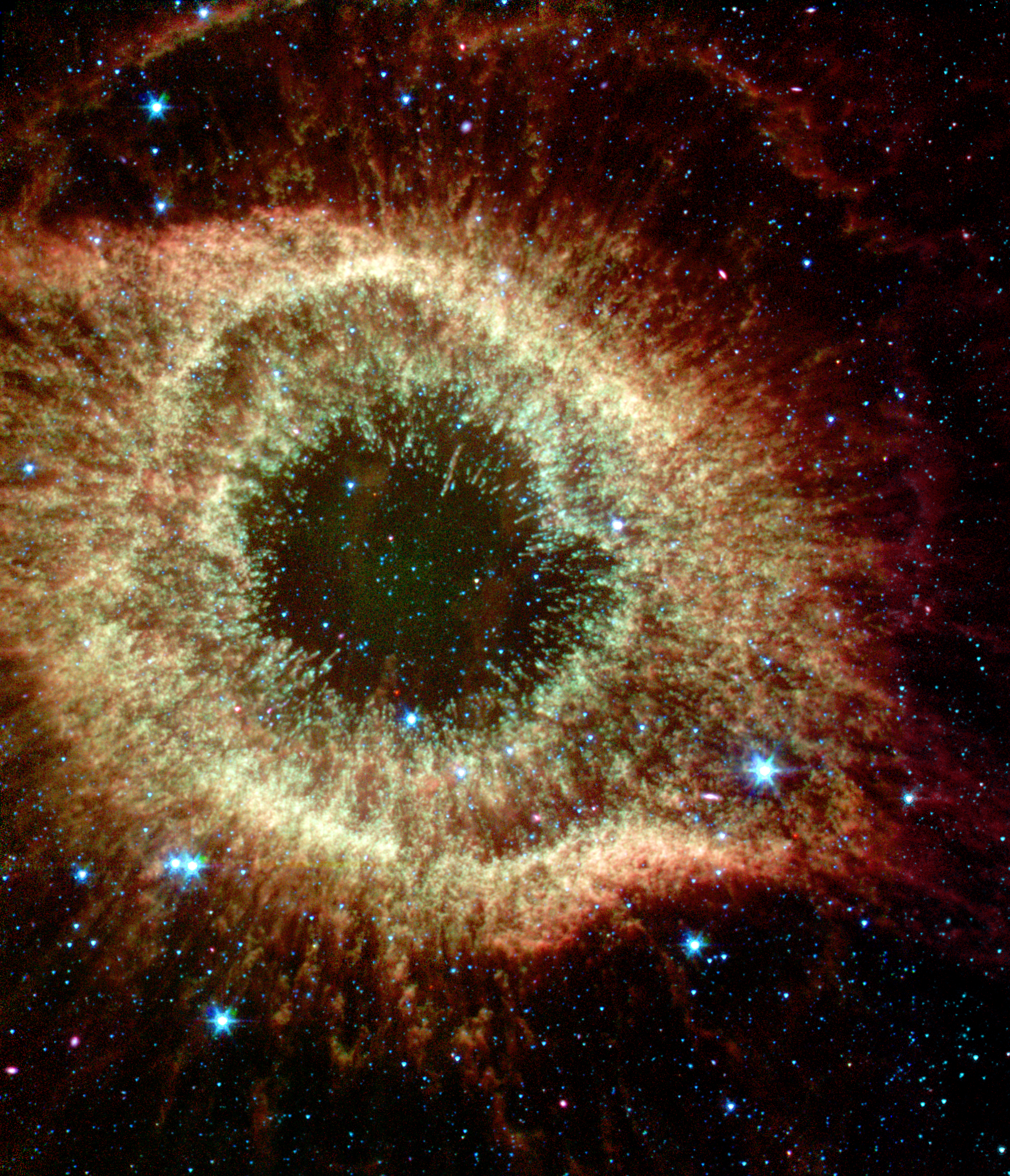 The Helix Nebula, which is composed of gaseous shells and disks puffed out by a dying sunlike star, exhibits complex structure on the smallest visible scales. In this new image from NASA's Spitzer Space Telescope, infrared light at wavelengths of 3.2, 4.5, and 8.0 microns has been colored blue, green, and red (respectively). The color saturation also has been increased to intensify hues. The "cometary knots" show blue-green heads due to excitation of their molecular material from shocks or ultraviolet radiation. The tails of the cometary knots appear redder due to being shielded from the central star's ultraviolet radiation and wind by the heads of the knots.